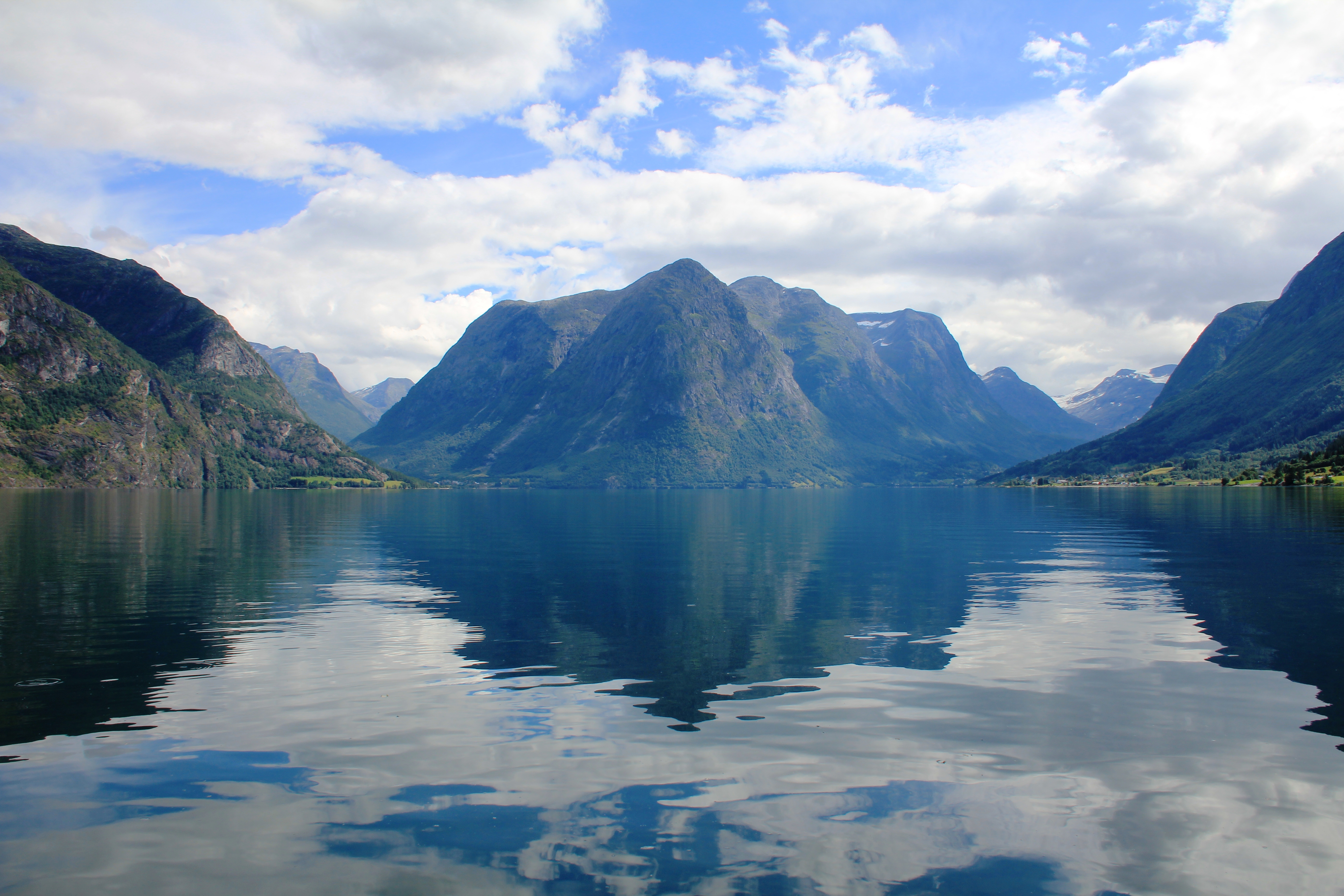 Oppstrynsvatnet in Stryn